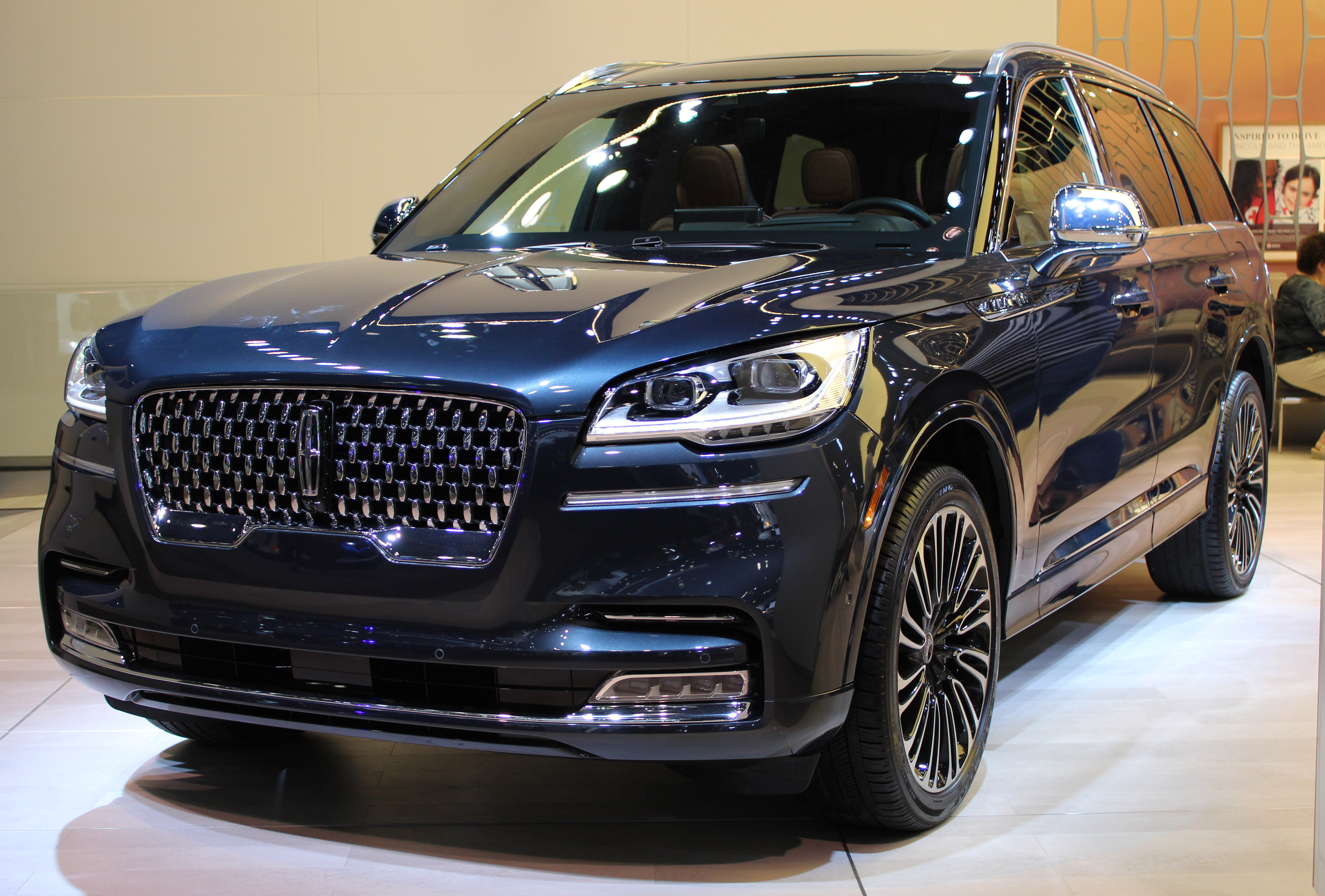 A 2020 Lincoln Aviator photographed during the 2019 New York International Auto Show, in Hudson Yards, Manhattan, NYC